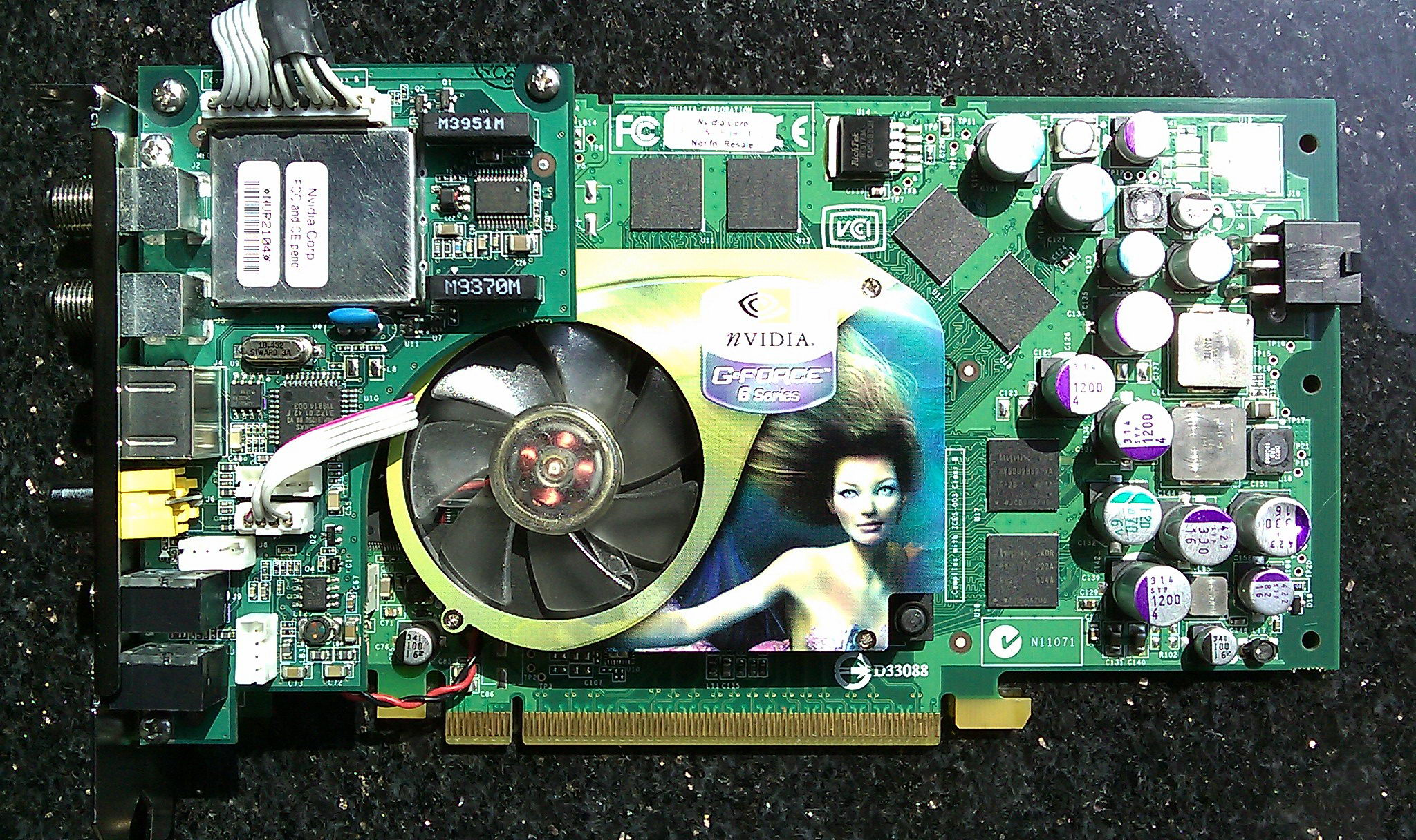 NVIDIA engineering sample graphic card